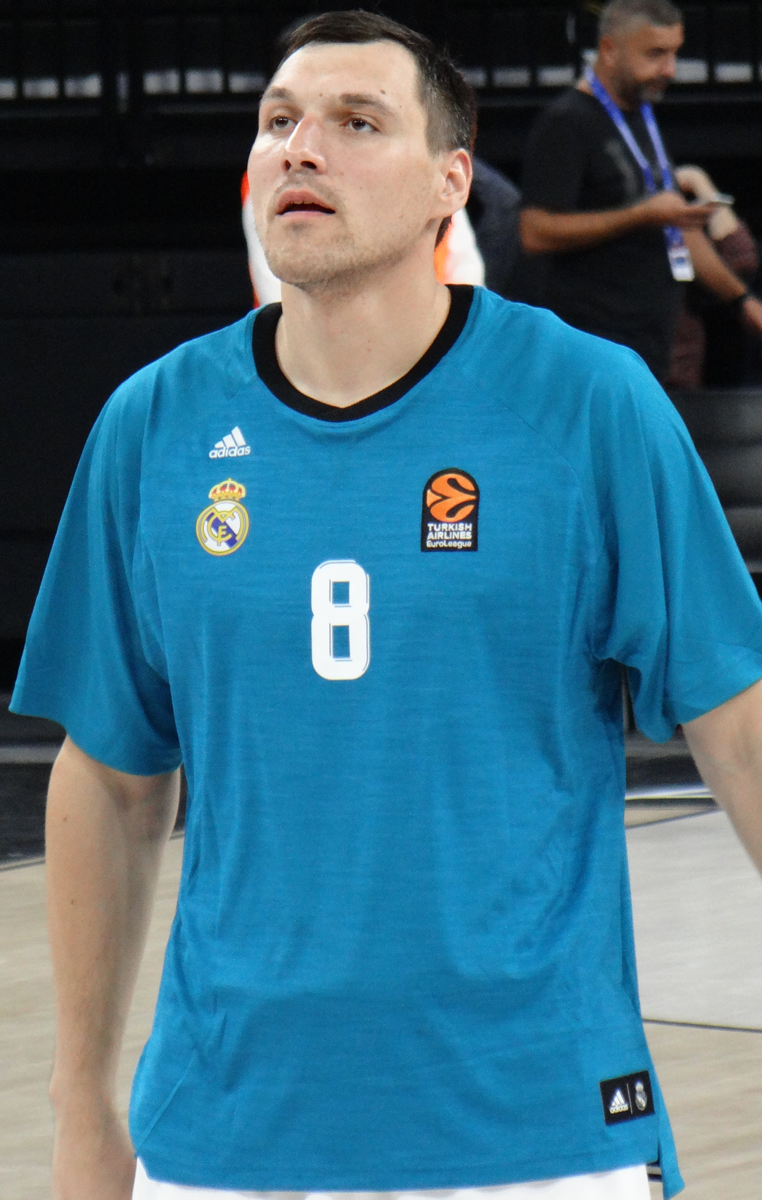 Jonas Mačiulis 8 Real Madrid Baloncesto Euroleague 20171012